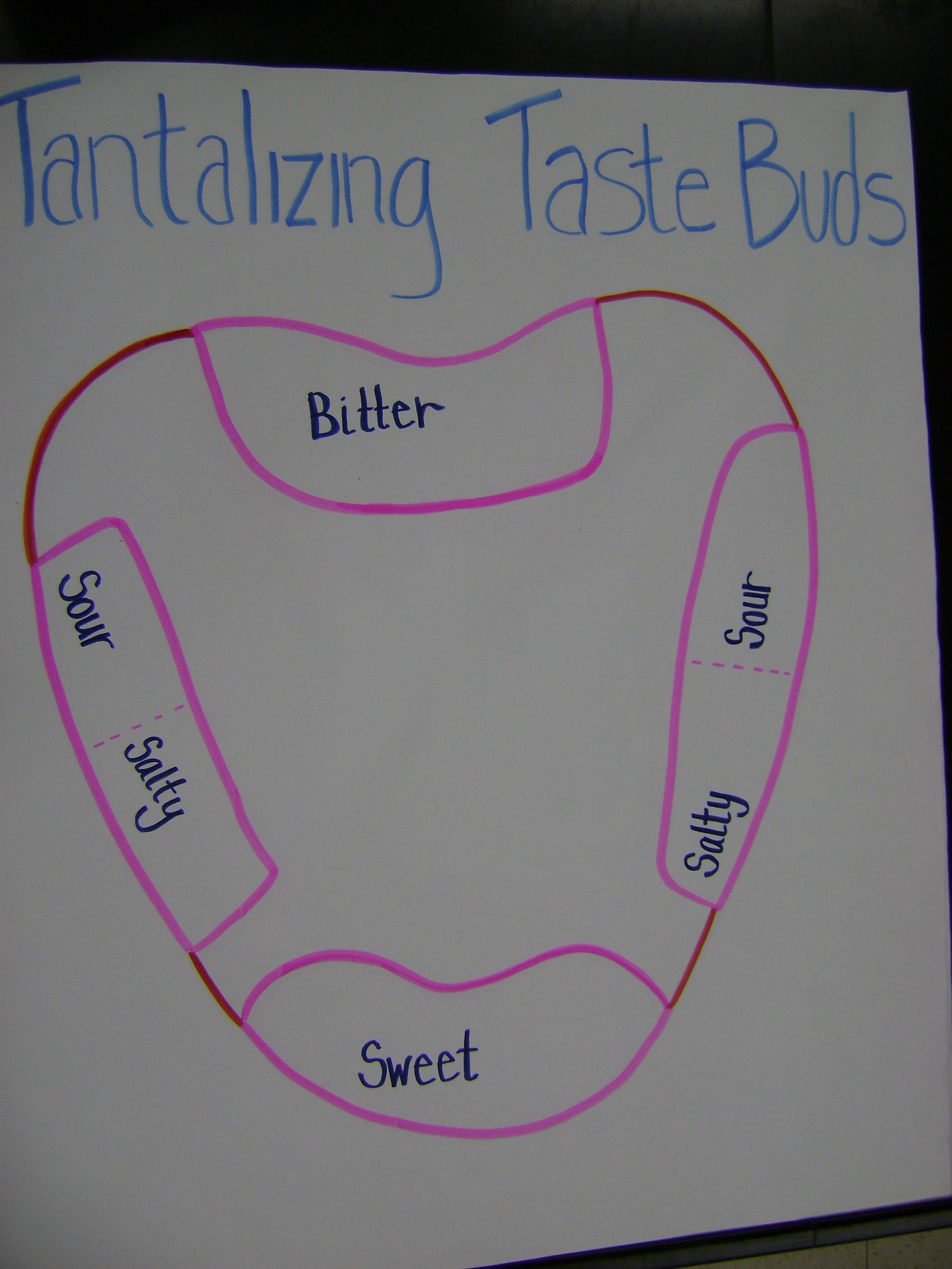 This is the results to the taste bud